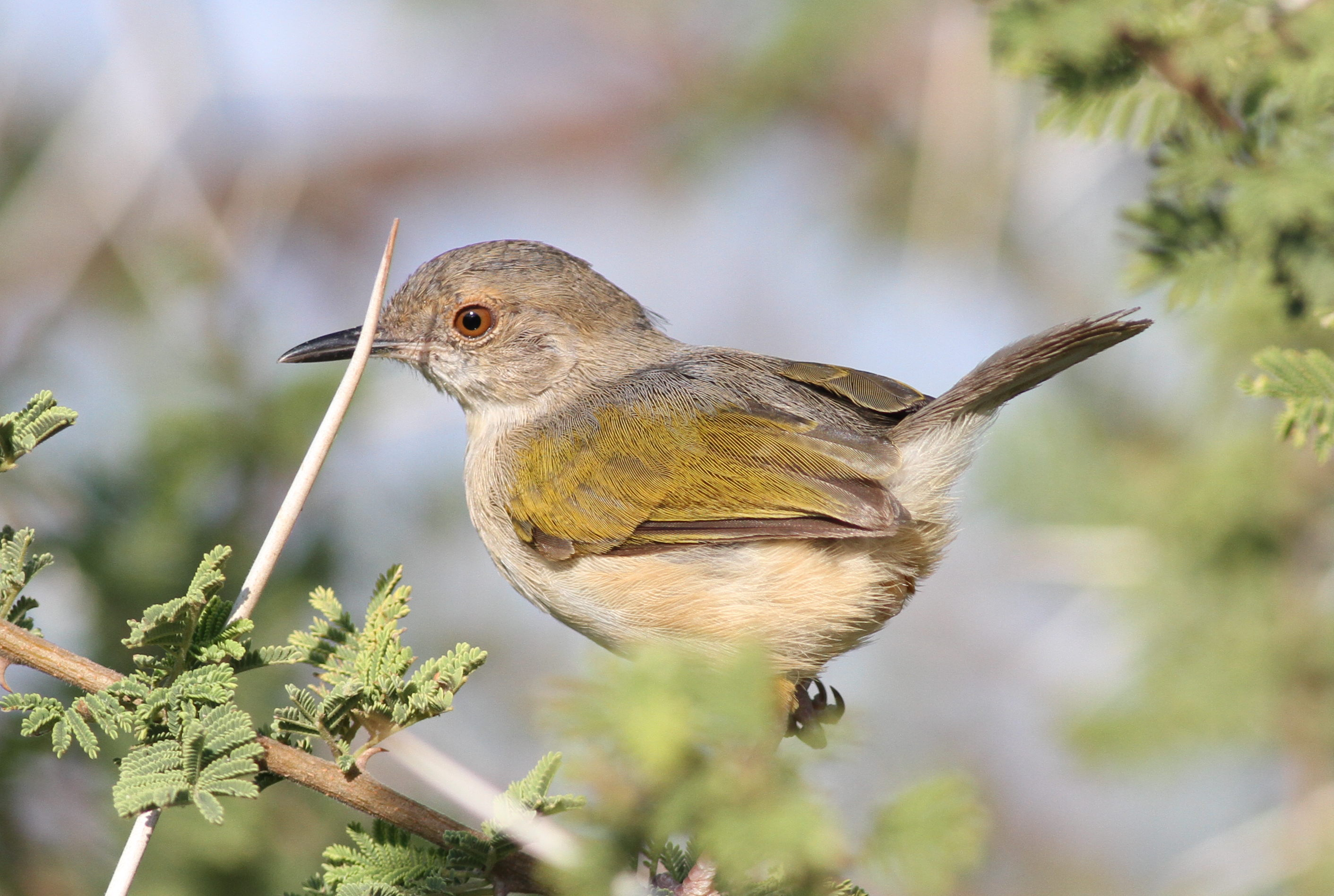 Grey-backed Camaroptera, Camaroptera brachyura, at Mapungubwe National Park, Limpopo, South Africa